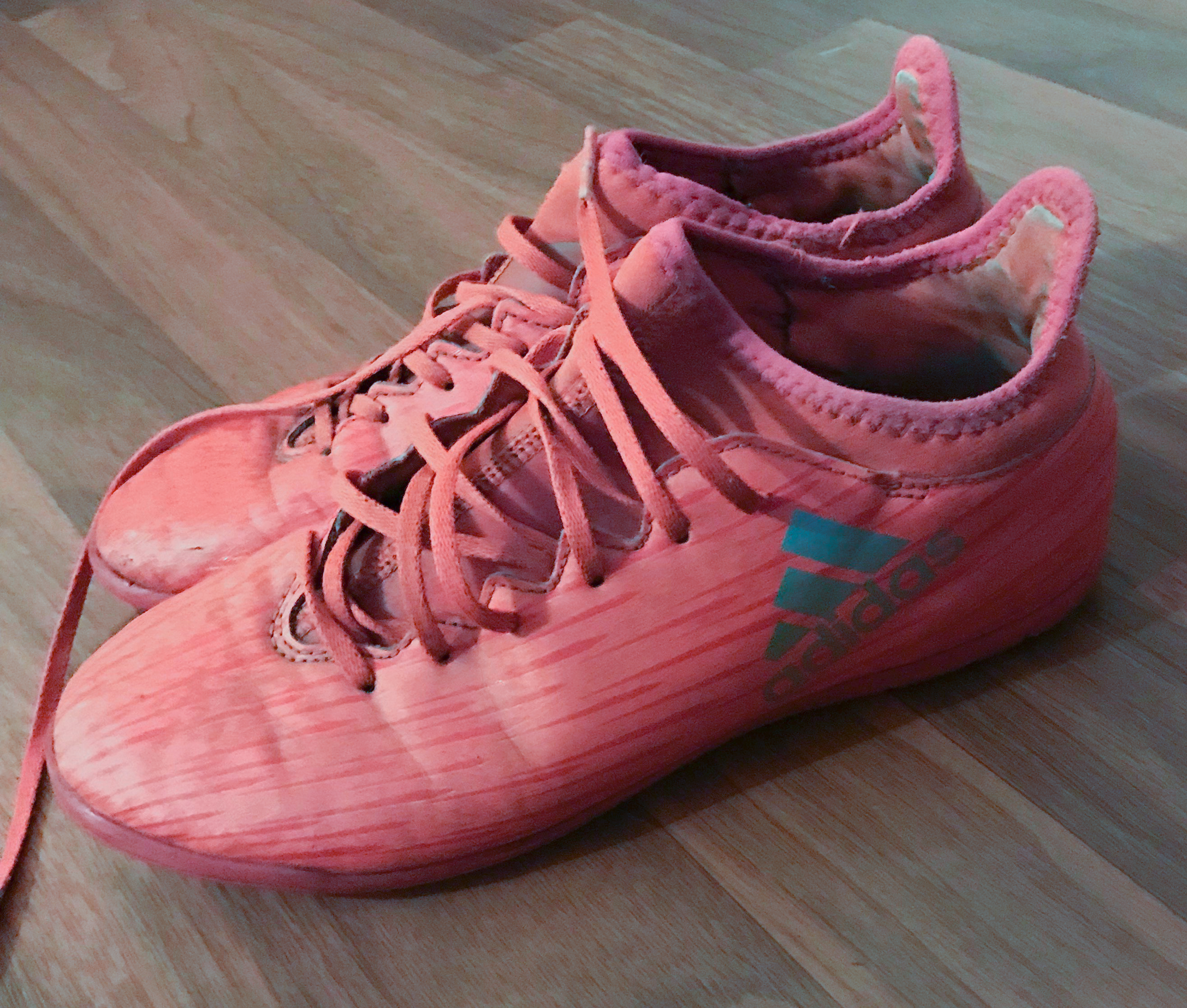 A pair of boys Adidas astro turf trainers